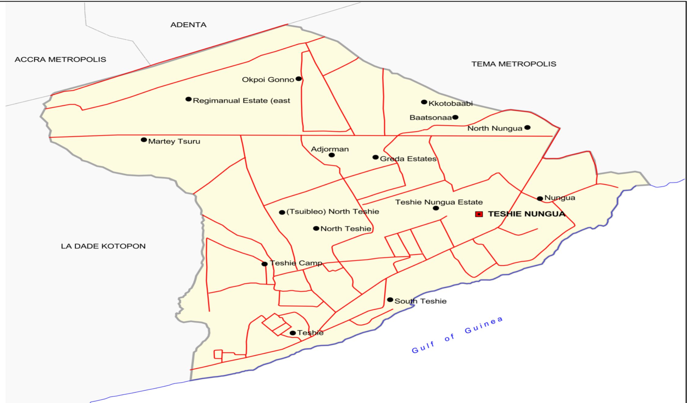 Ledzokuku Krowor municipal district administrative borders